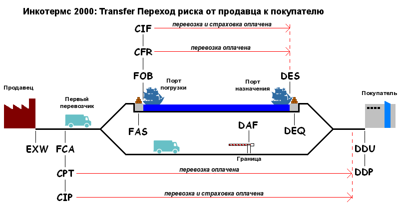 Incoterms - Transfer of risk from the seller to the buyer